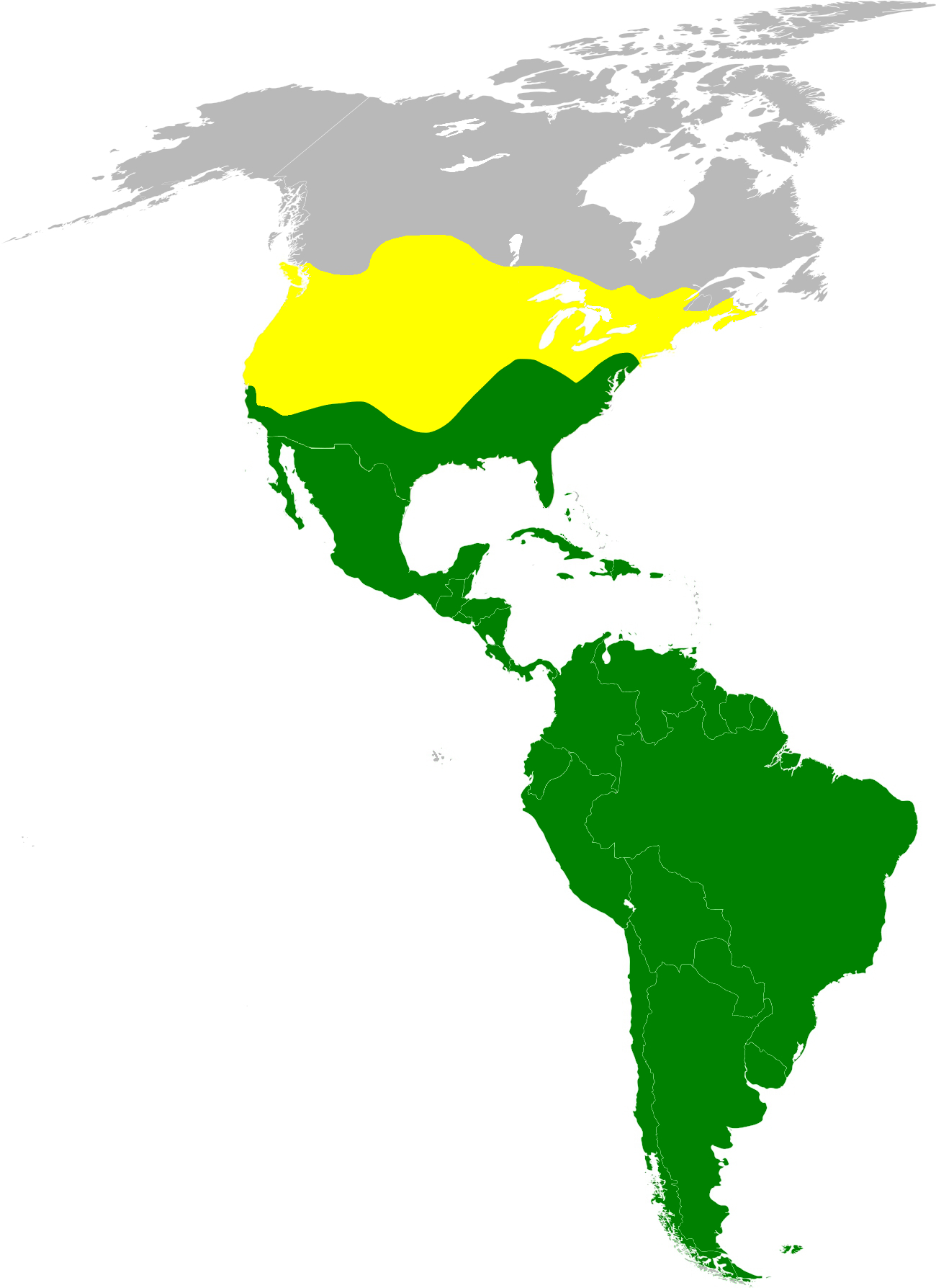 Turkey Vulture Range map: (Yellow is summer, Green is year-round).